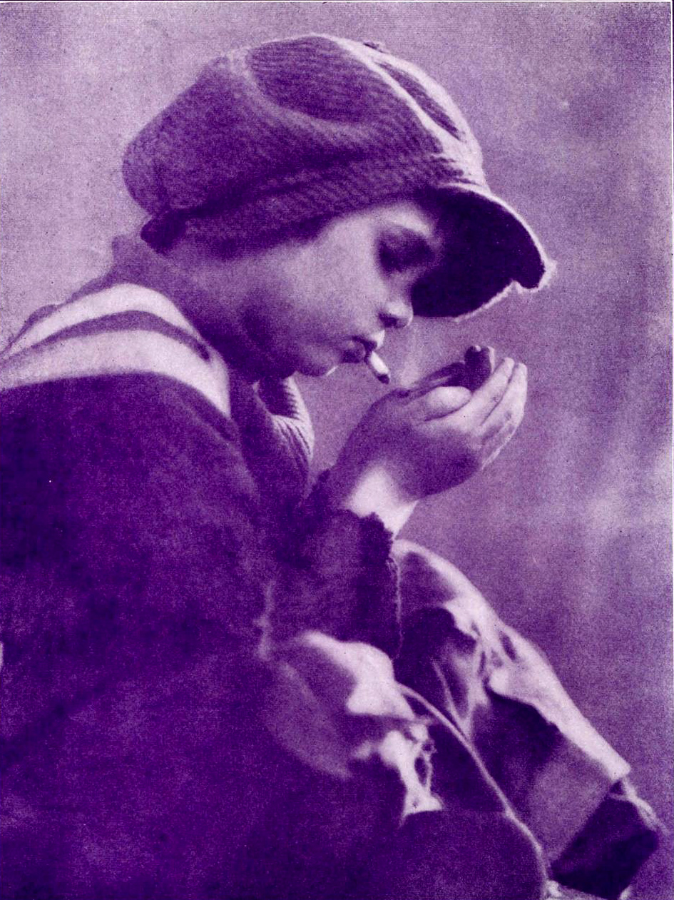 Jackie Coogan as "The Kid". Filmplay Journal, August 1921